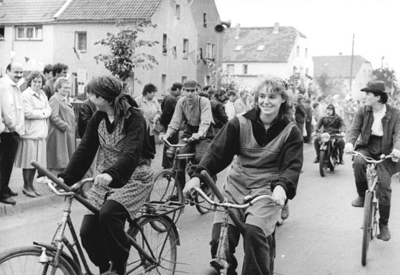 ADN-ZB Kluge 17.10.87 Bez. Leipzig: Harvest Festival - Rural Life once and today described an atmospheric procession on the occasion of the harvest festival bu the Laas cooperative in Oschatz. Here, the postwar period is shown - with the fork on the way to the field.